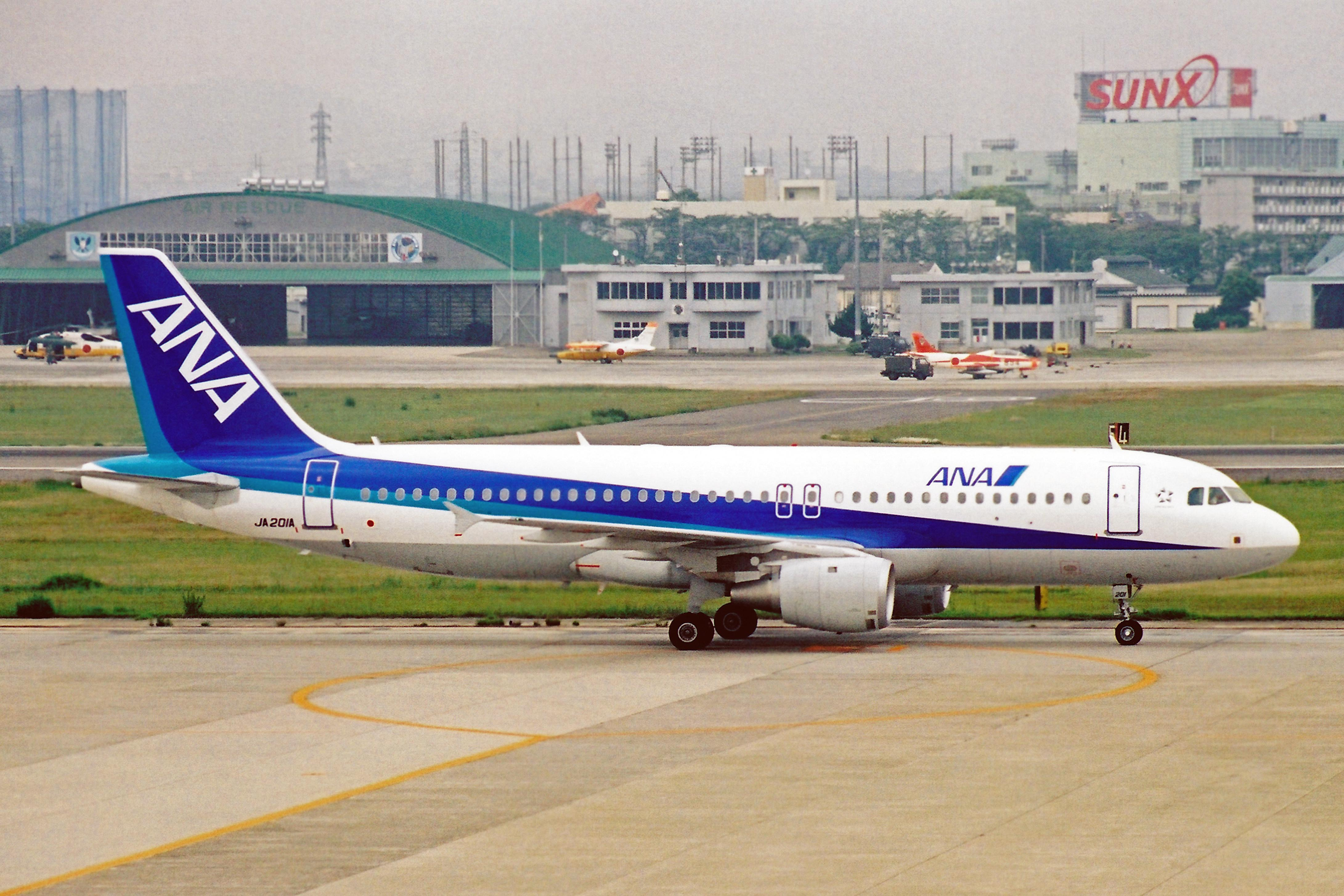 New Titles (in 2003).